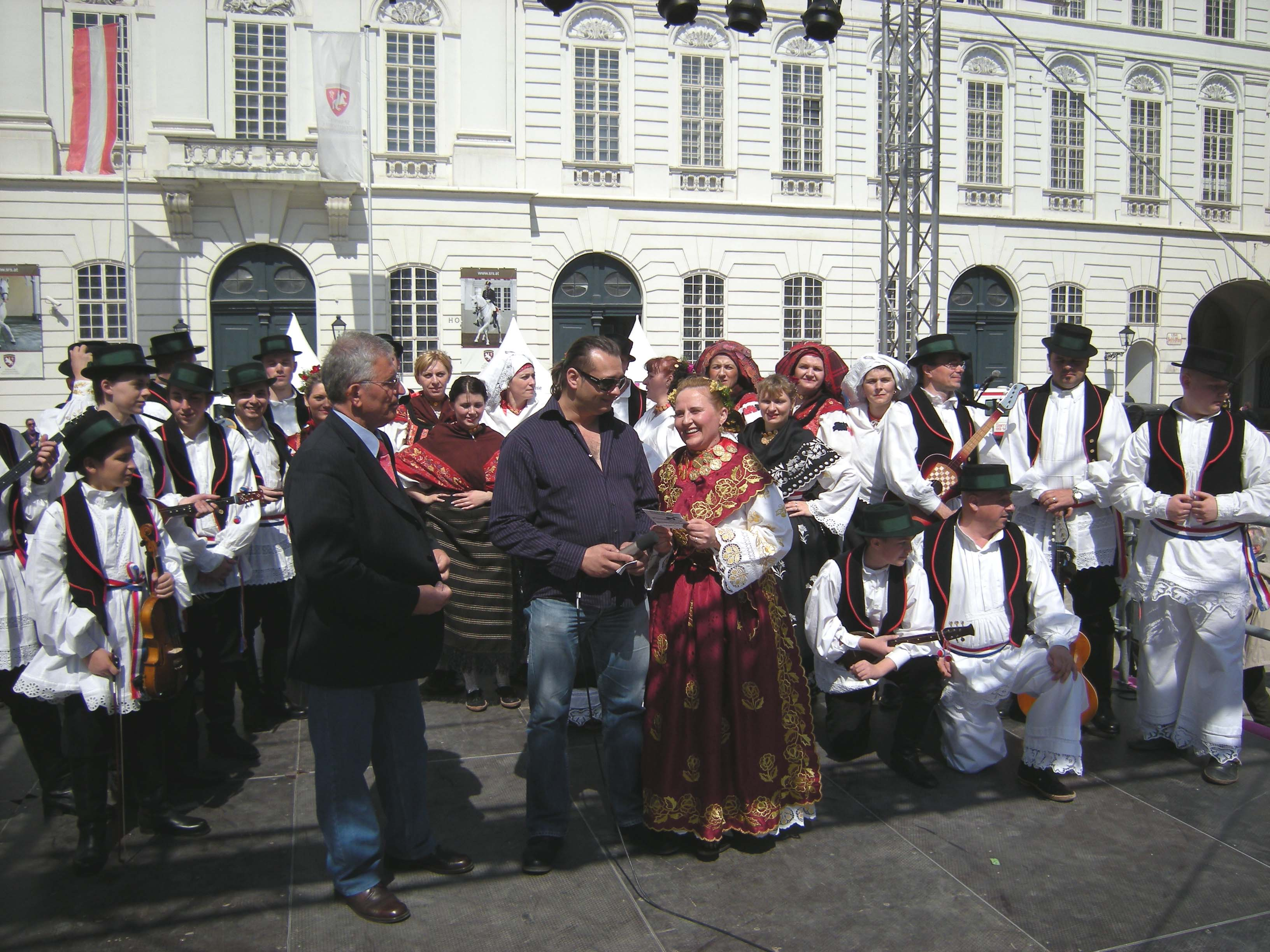 'Sokadija', Vienna-based Croatian folklore group, performing at Josefsplatz.